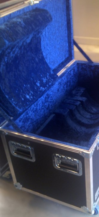 Road case for the Stanley Cup made for the NHL by Clydesdale Custom Cases using TCH hardware